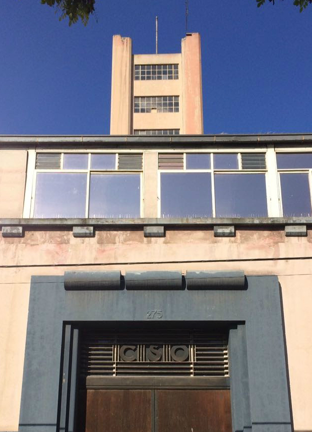 View from General de la Lastra Street (Independencia disctrict). With "CSO" acronyms